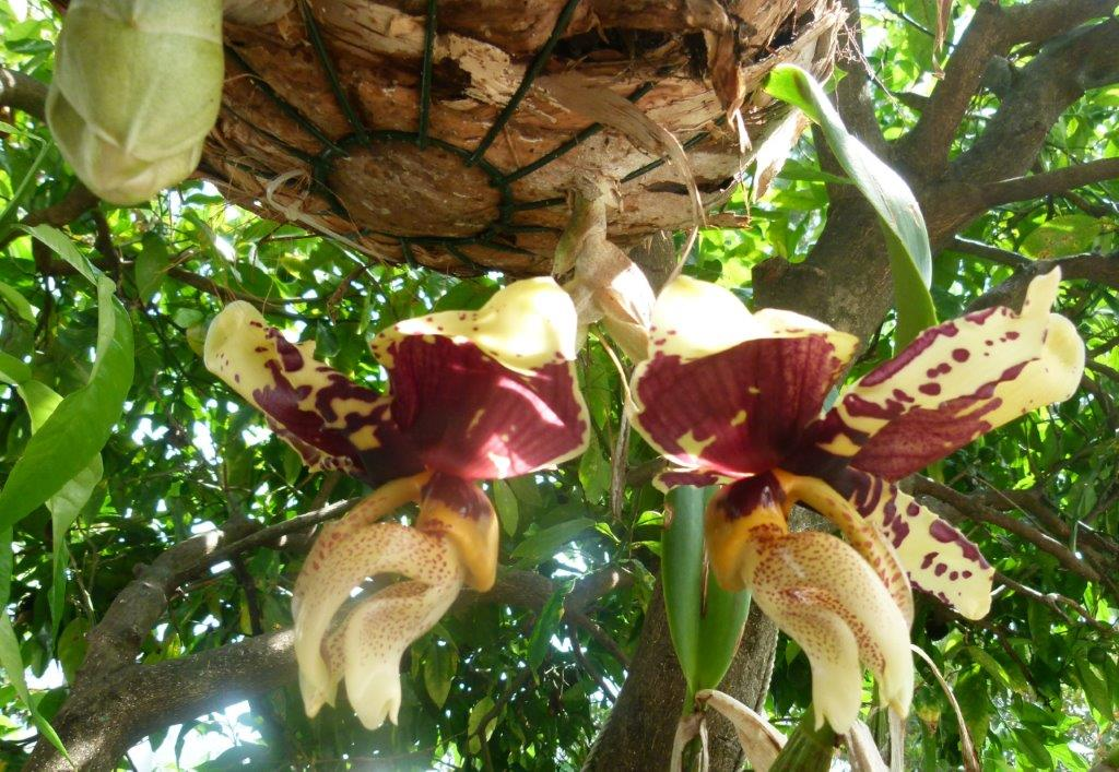 Stanhopea Tigrina growing Sydney Australia flowers from bottom of basket.